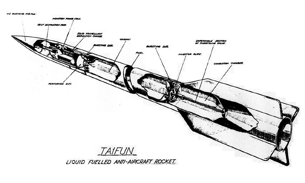 Original Taifun missile scheme.